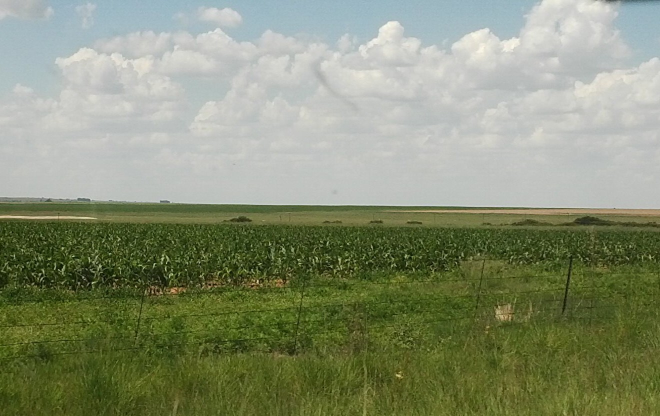 Maize production near the R34 Welkom Other information Nil